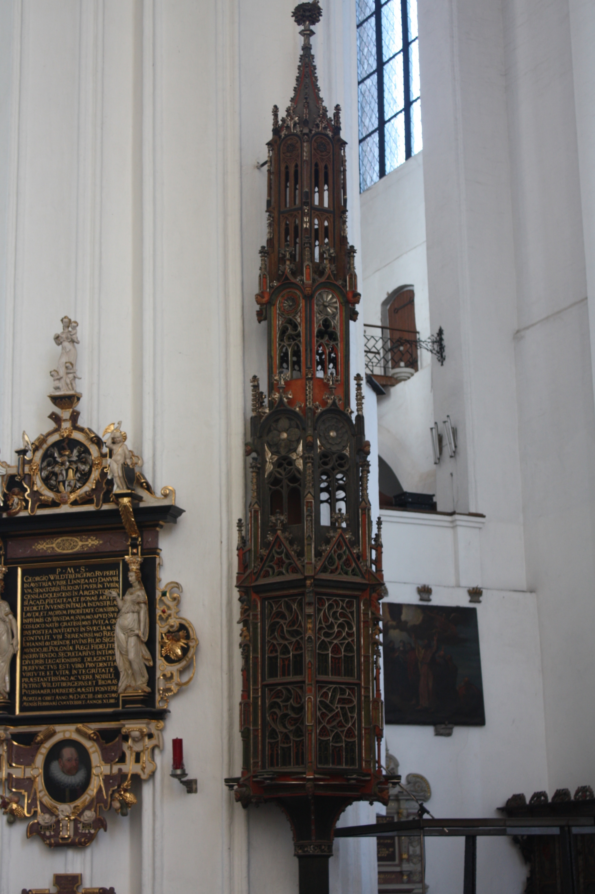 Gdańsk St. Mary's Church. Gothic Tabernacle